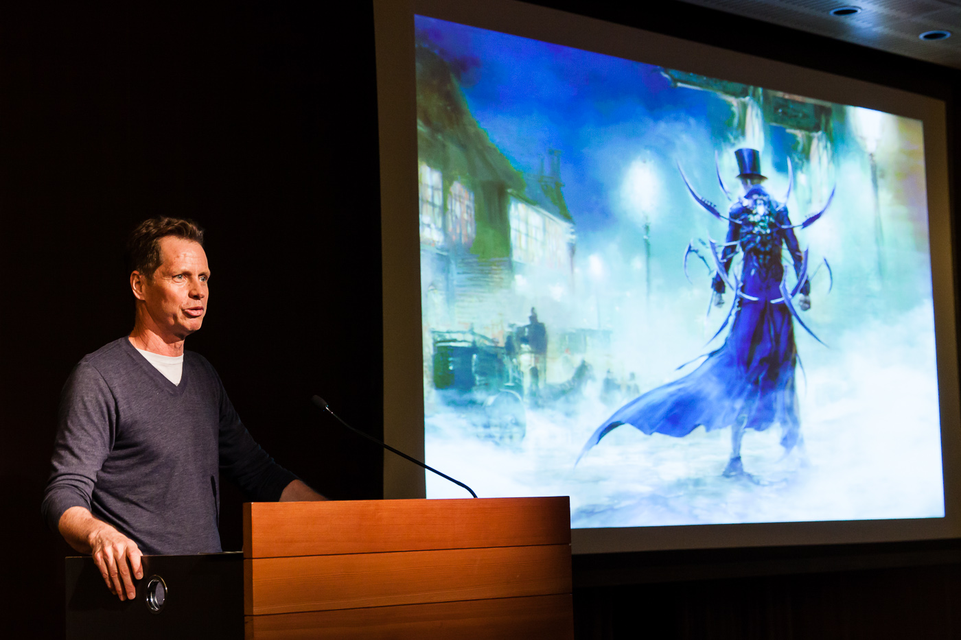 Young Adult Literature Authors Frank Beddor and Eric Laster discuss story creation, craft, and publishing with English Education students.